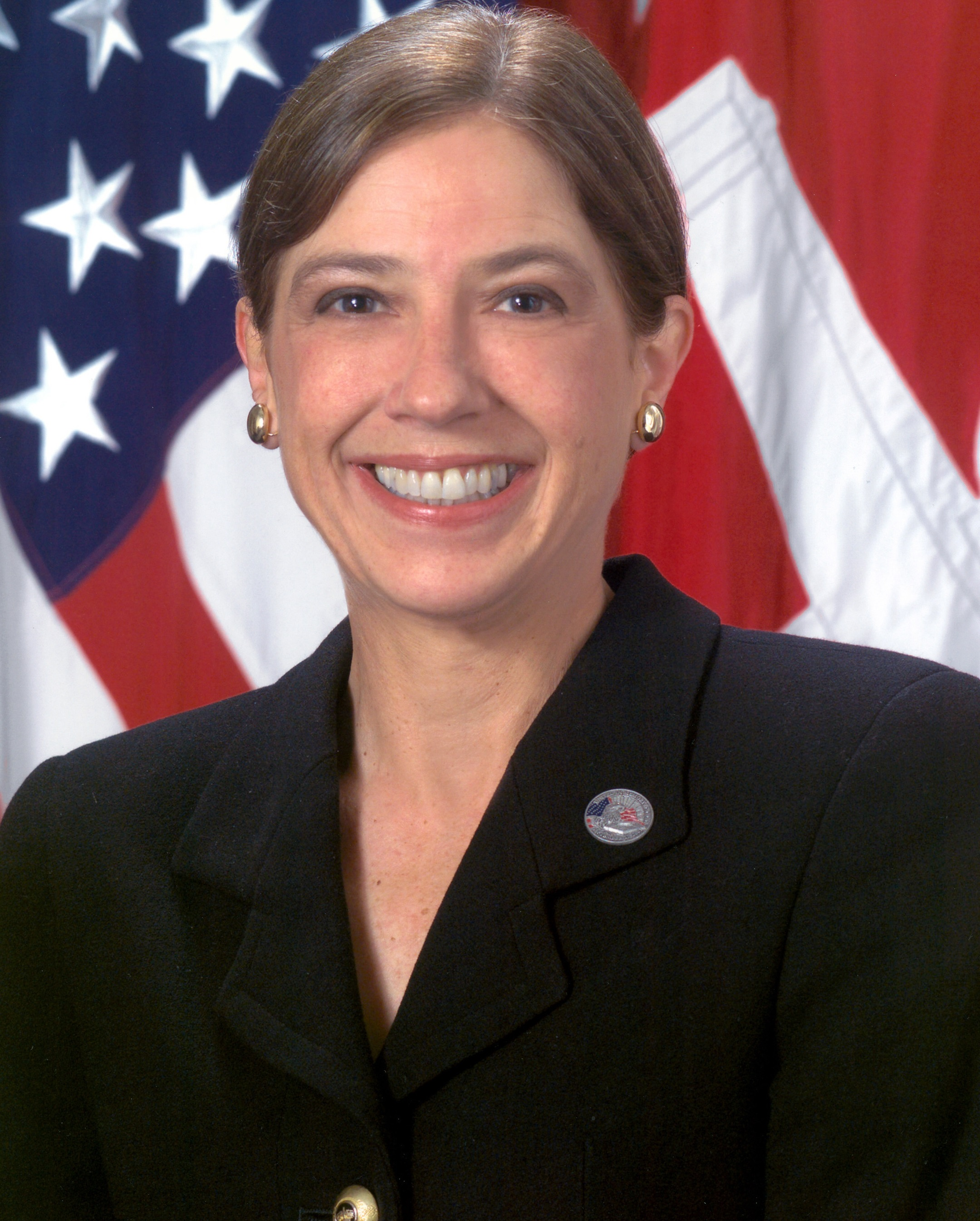 030202-N-0000X-001 U.S. Navy file photo of the honorable Susan Morrisey Livingstone, Under Secretary of the Navy, and acting Secretary of the Navy. U.S. Navy photo. (RELEASED)